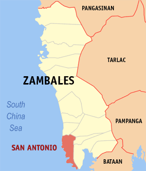 Map of Zambales showing the location of San Antonio